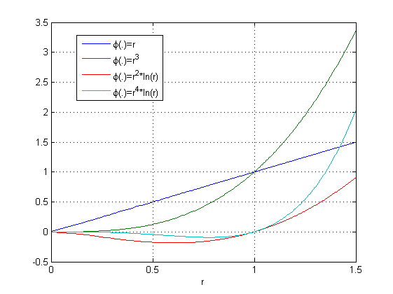 Basis functions of some polyharmonic splines